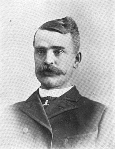 Photo of George de Rue Meiklejohn, Nebraska Republican politician who served as the fifth Lieutenant Governor of Nebraska and a representative of the U.S. state of Nebraska.